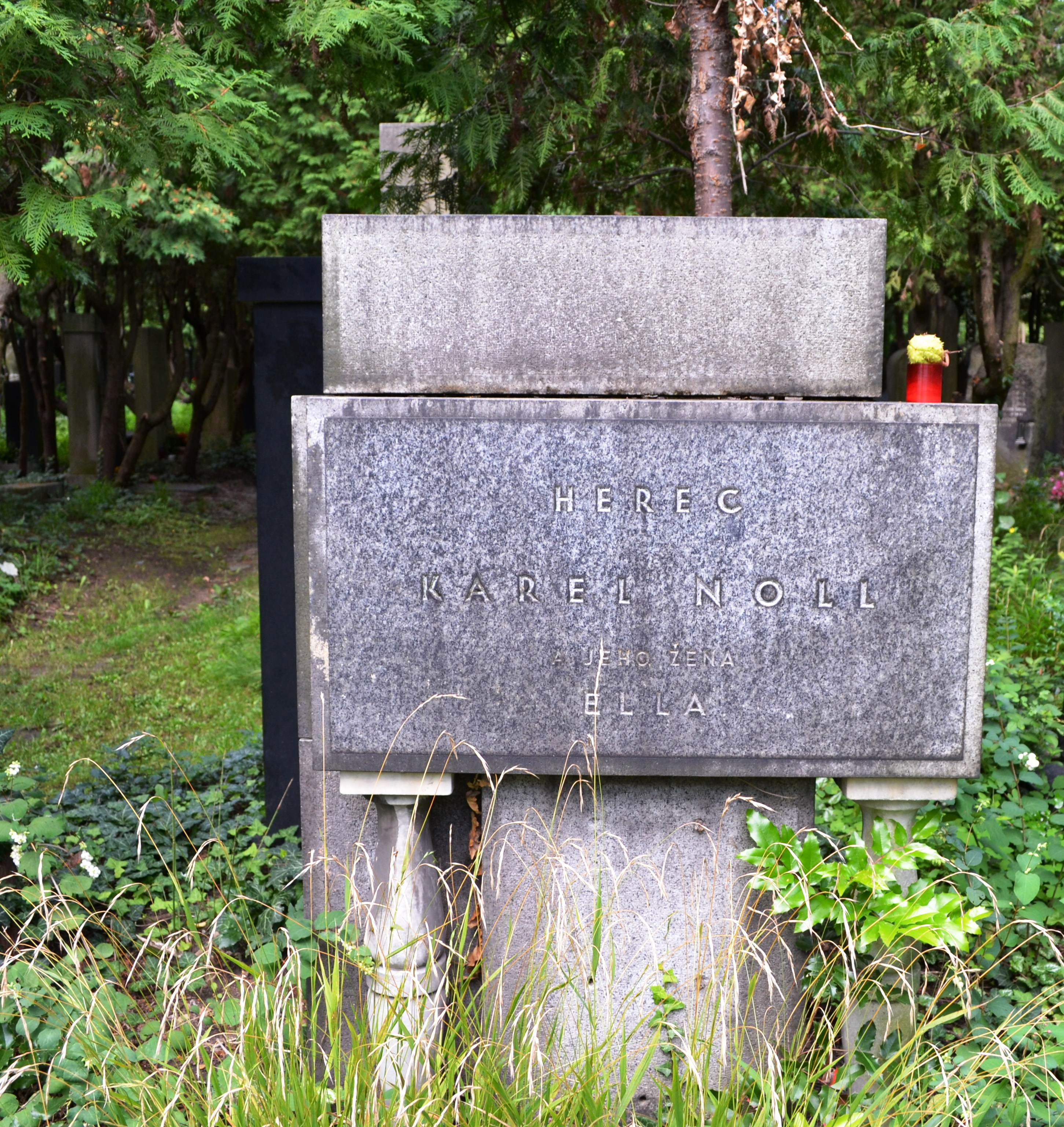 Tomb of Czech actor Karel Noll at Vinohrady Cemetery in Prague